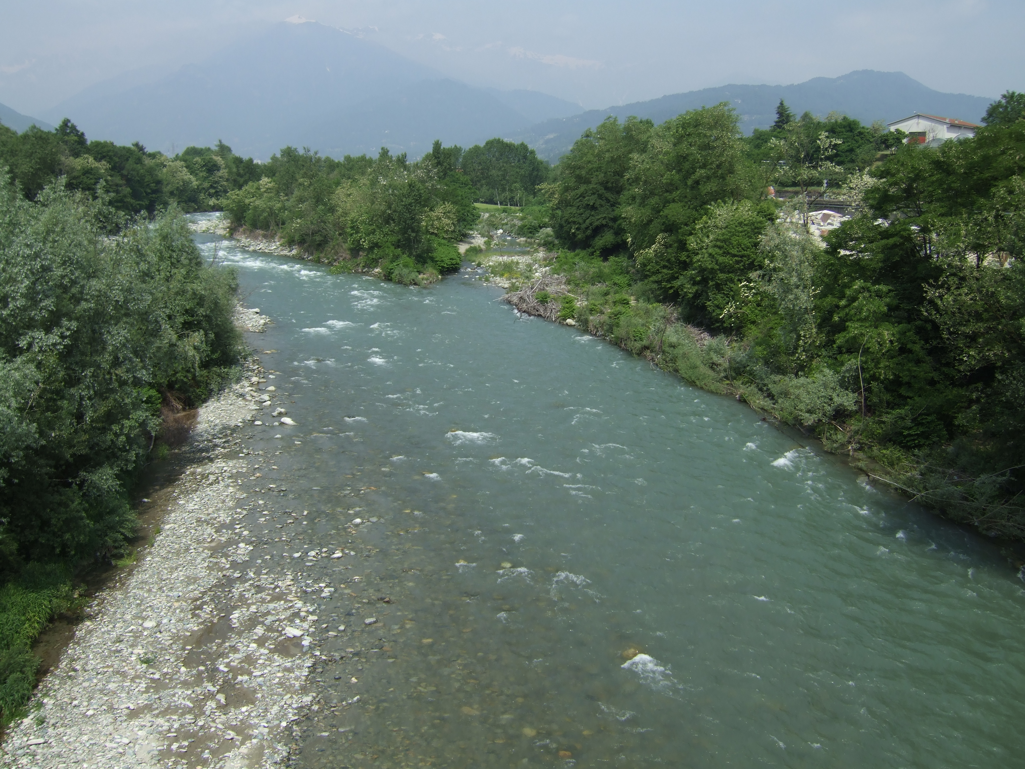 River Pellice from the Bibiana bridge